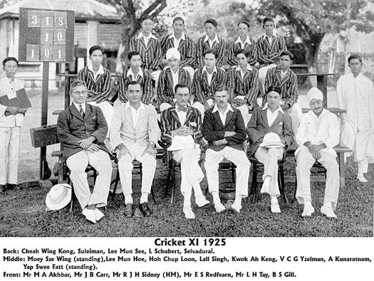 Victoria Institute Cricket Team 1925